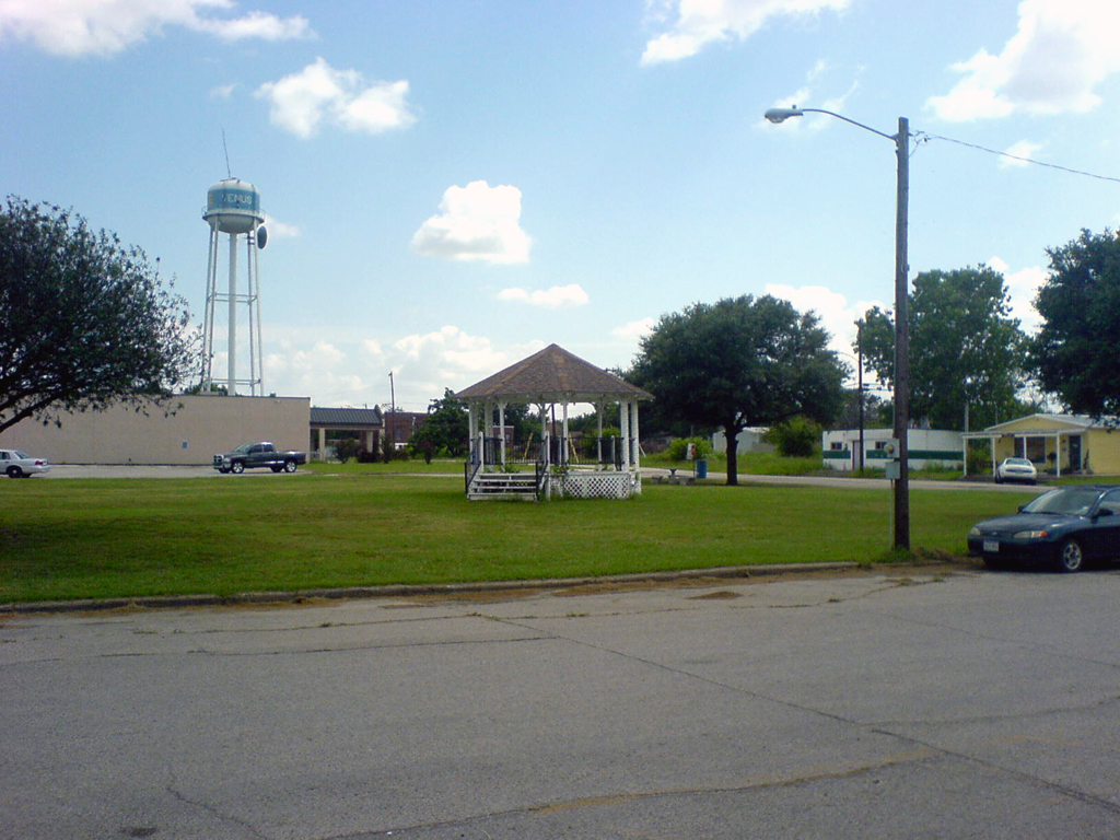 The Venus City Park gazebo. Photo by Danny Burton, 07/22/07.